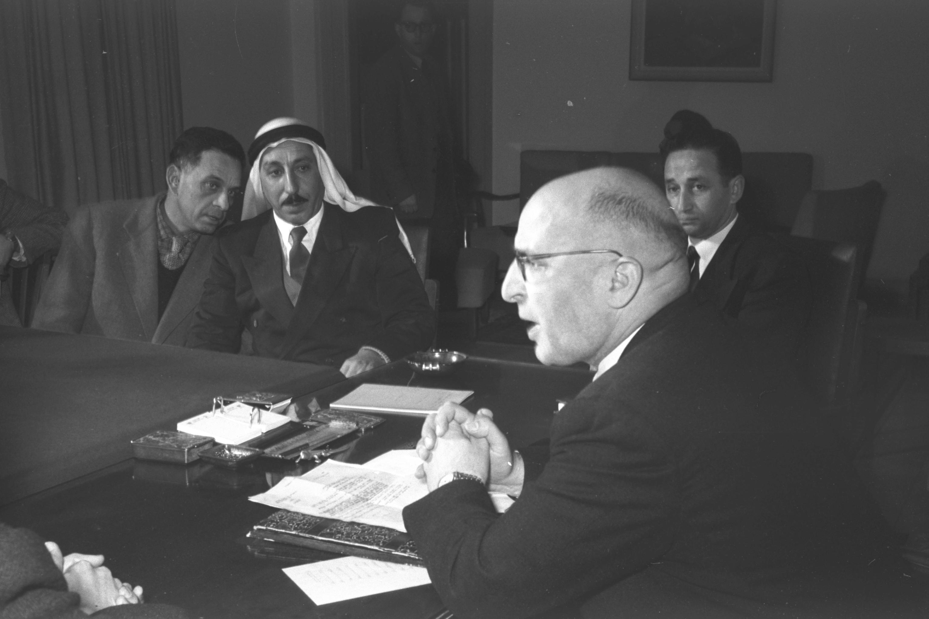 Minister Pinchas Sapir meeting Israel Knesset member Faris hamdam to discuss decision to establish a cannery at Baqa al-Gharbiyye.